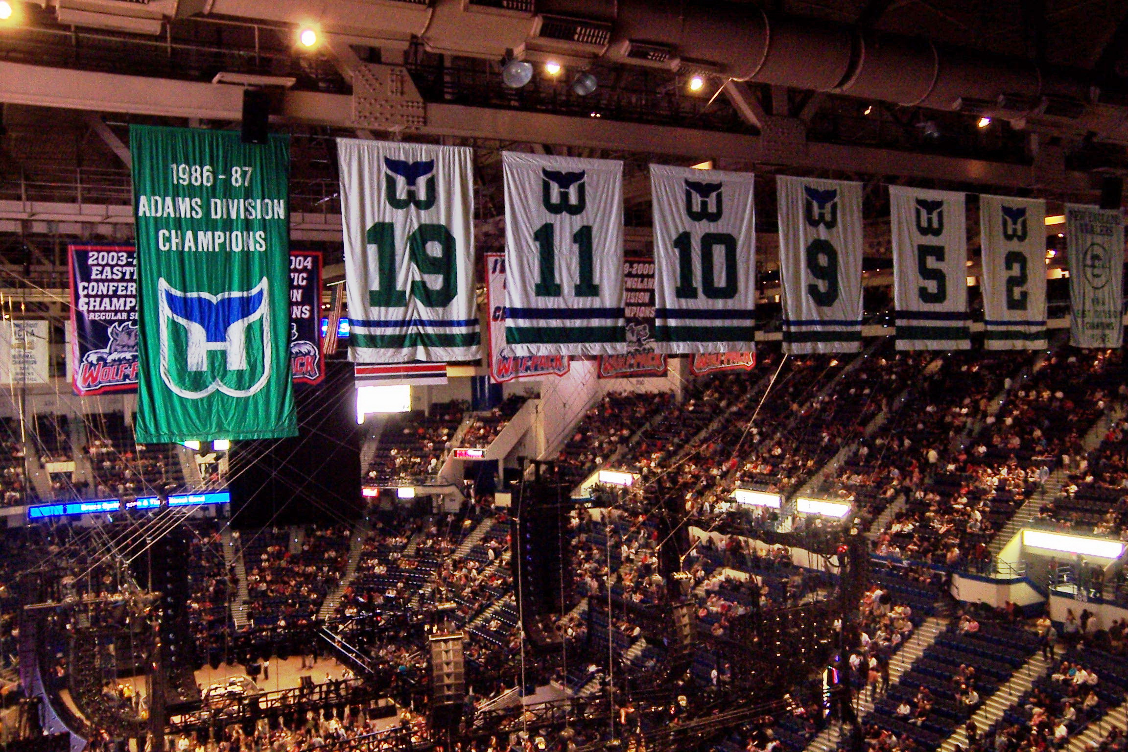 I SAID I TOOK IT!! Hartford Civic Center banners for the Hartford Whalers departed franchise. Taken by me, 2 October 2007.